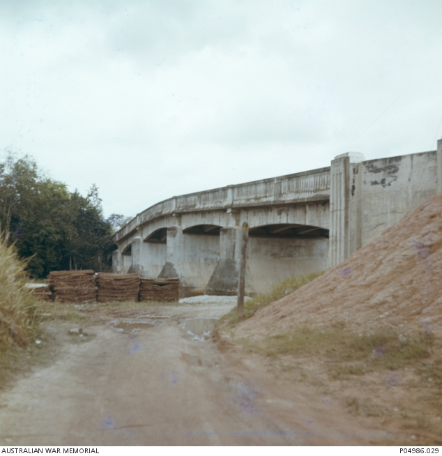 The bridge at Parit Sulong, located on the south western coast of the Malayan peninsula, where Australian soldiers fought in the final stage of the battle of Muar against overwhelming Japanese forces in January 1942.